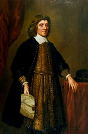 Painting of Cecilius Calvert, 2nd Baron Baltimore (Cecil Calvert)